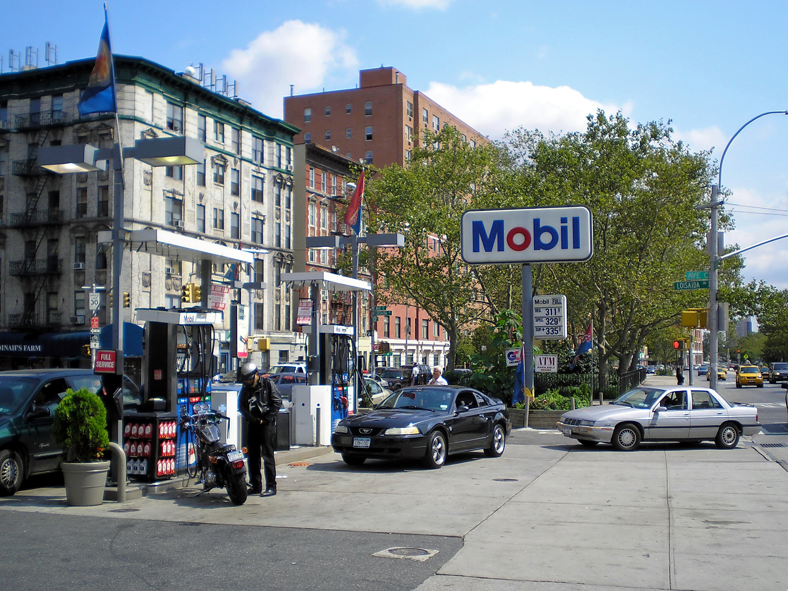 Mobil Gas Station by David Shankbone